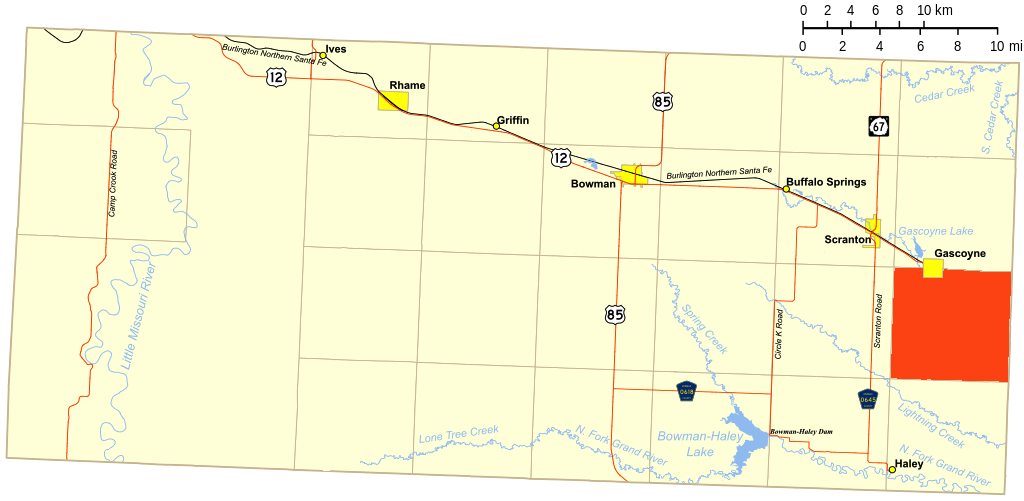 Map of Bowman County, ND, with Gascoyne Township highlighted